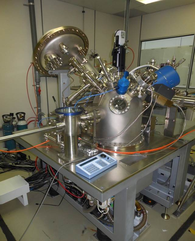 The photo taken from a XPS system at Institute of Materials Research and Engineering, Singapore.